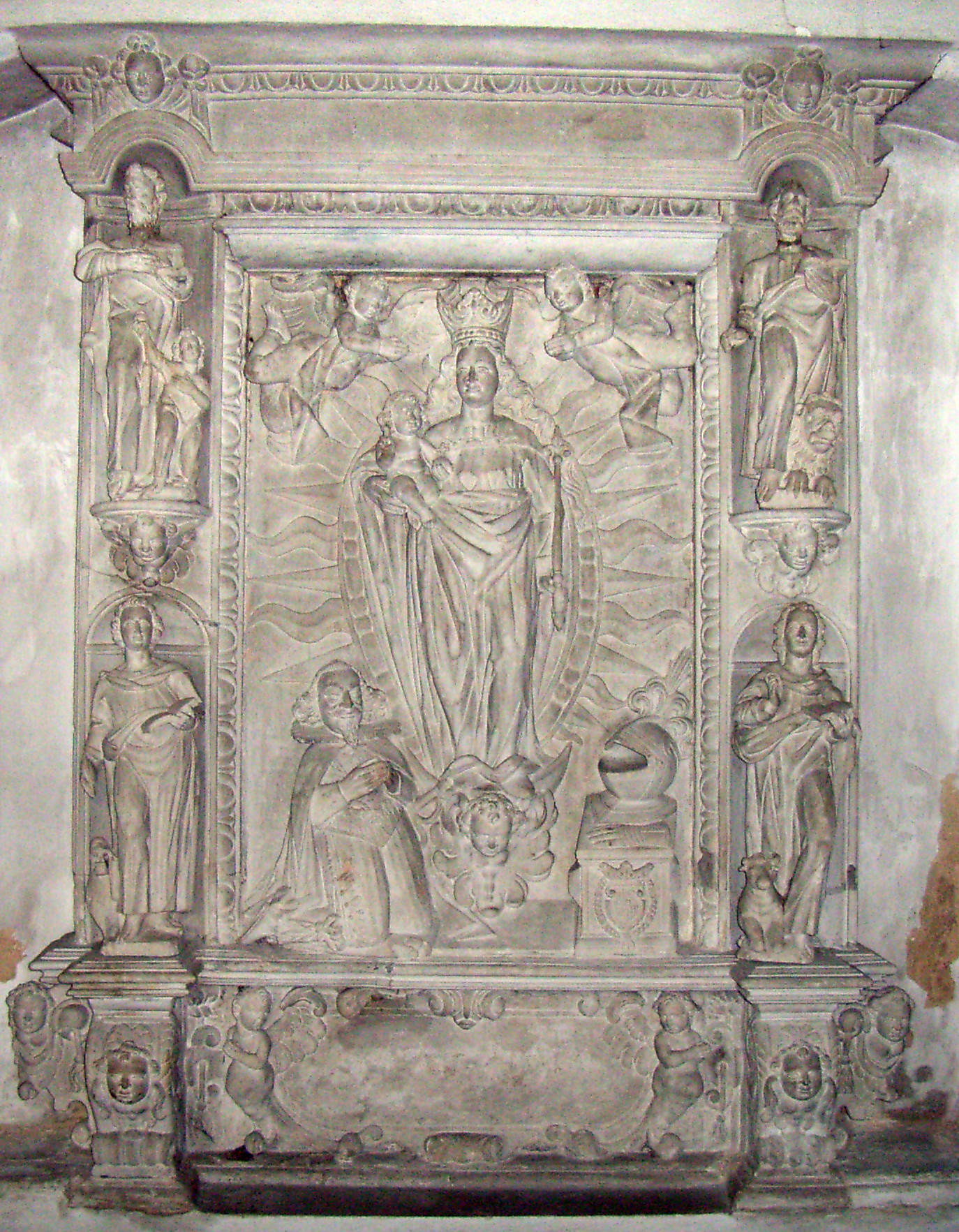 Epitaph Adam von Schwarzenberg, parish church of Gimborn, district of Marienheide, North Rhine-Westphalia, Germany. Freestone; 230 x 186 cm; mid 17th c.; cartouche bearing inscription was destroyed during reconstruction in 1867.